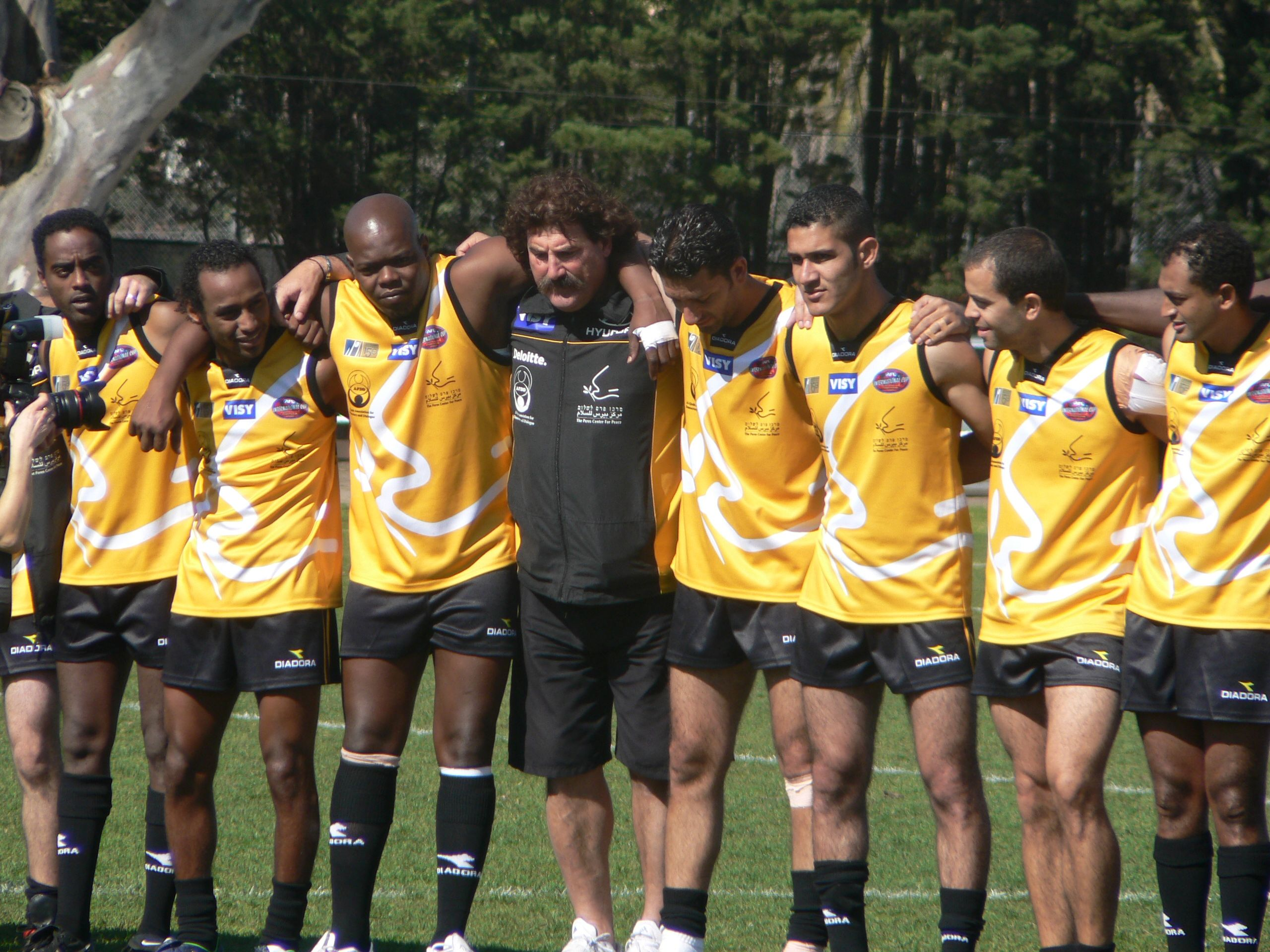 Peres team for peace lines up for anthem at the 2008 International Cup